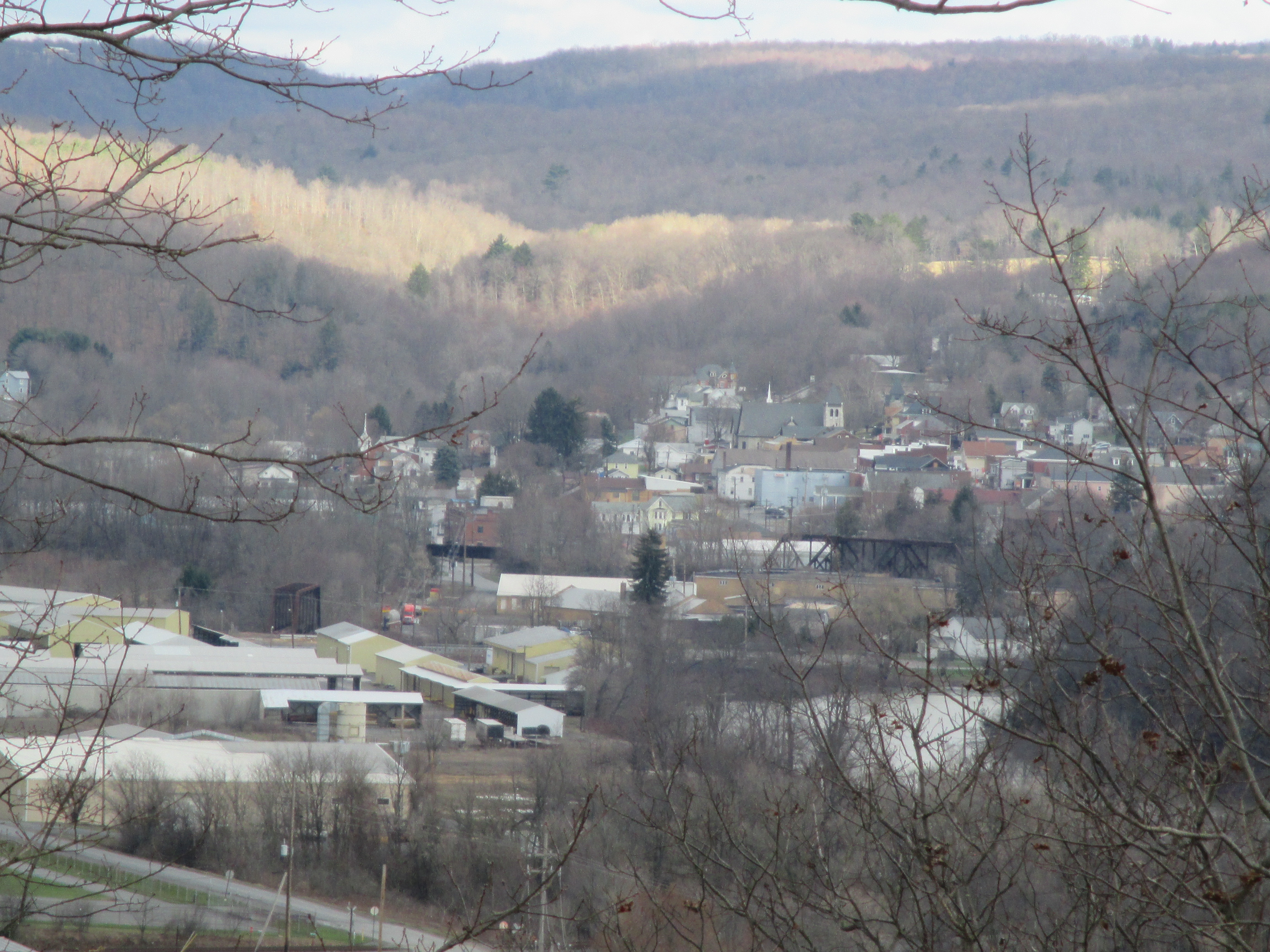 View of Curwensville, Pennsylvania looking northwest from a hillside to the southeast.